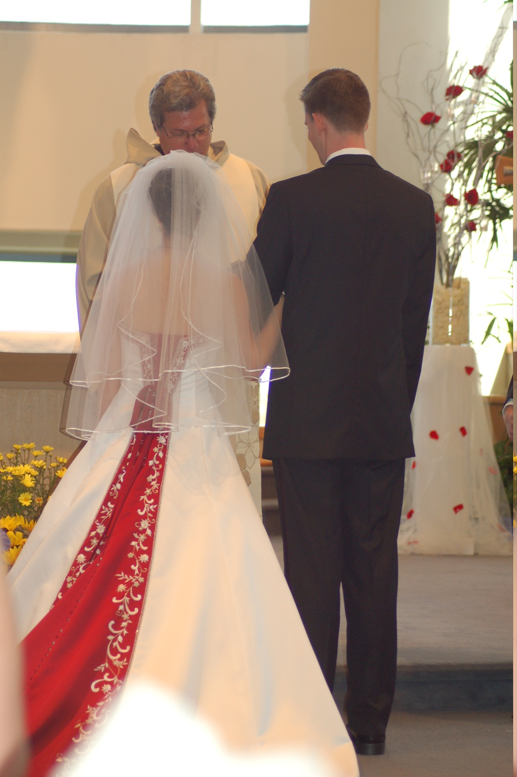 Bride and groom, backs facing the camera, in front of a priest during the wedding ceremony. The bride is wearing a white dress with some red in it. The groom is wearing a black suit.